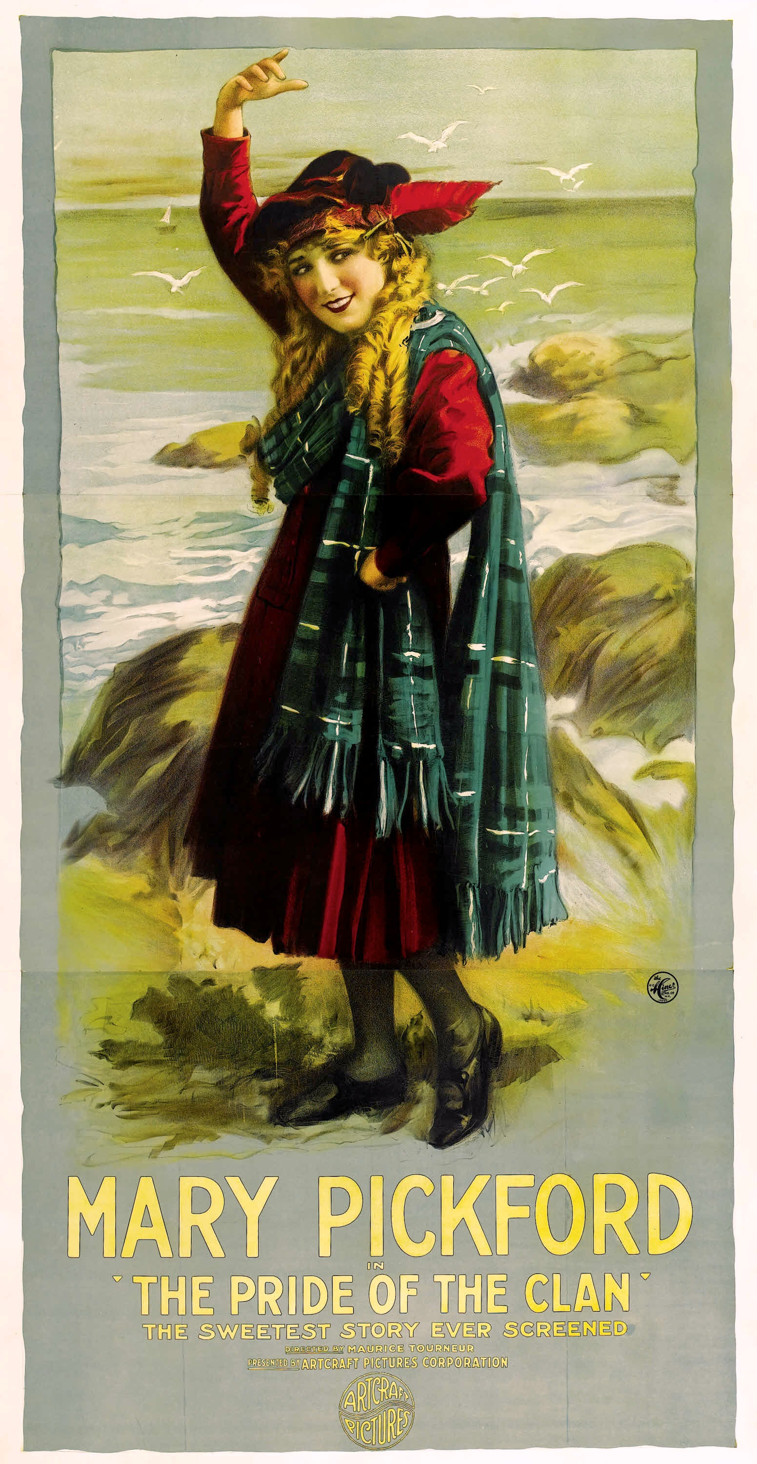 Low-res Movie poster used solely to illustrate article on The Pride of the Clan Source Derived from a digital capture (photo/scan) of the Film Poster/ VHS or DVD Cover (creator of this digital version is irrelevant as the copyright in all equivalent images is still held by the same party). Copyright held by the film company or the artist. Claimed as fair use regardless.